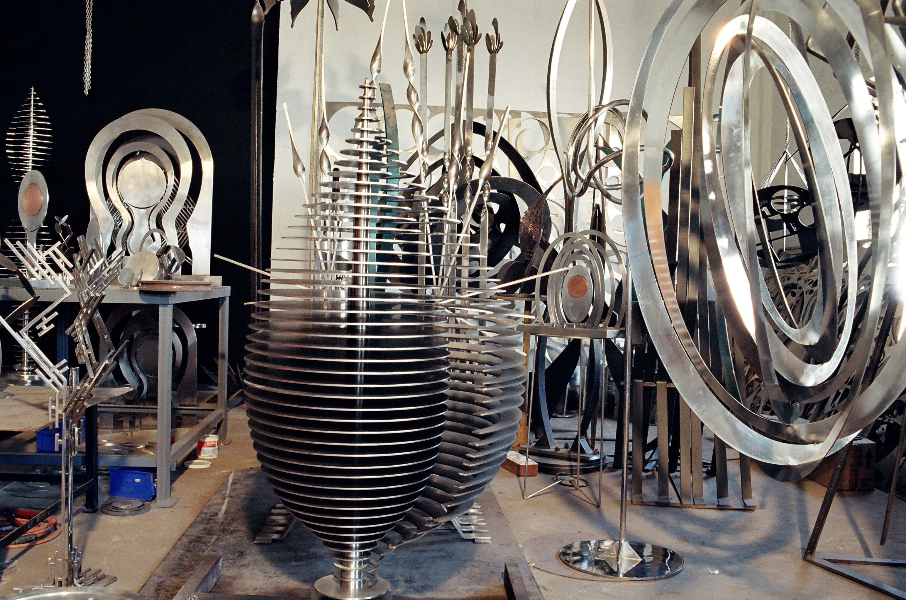 Balan Nambiar, indian artist born in 1937. This is his studio for stainless steel sculpture in Bangalore, India in 2005